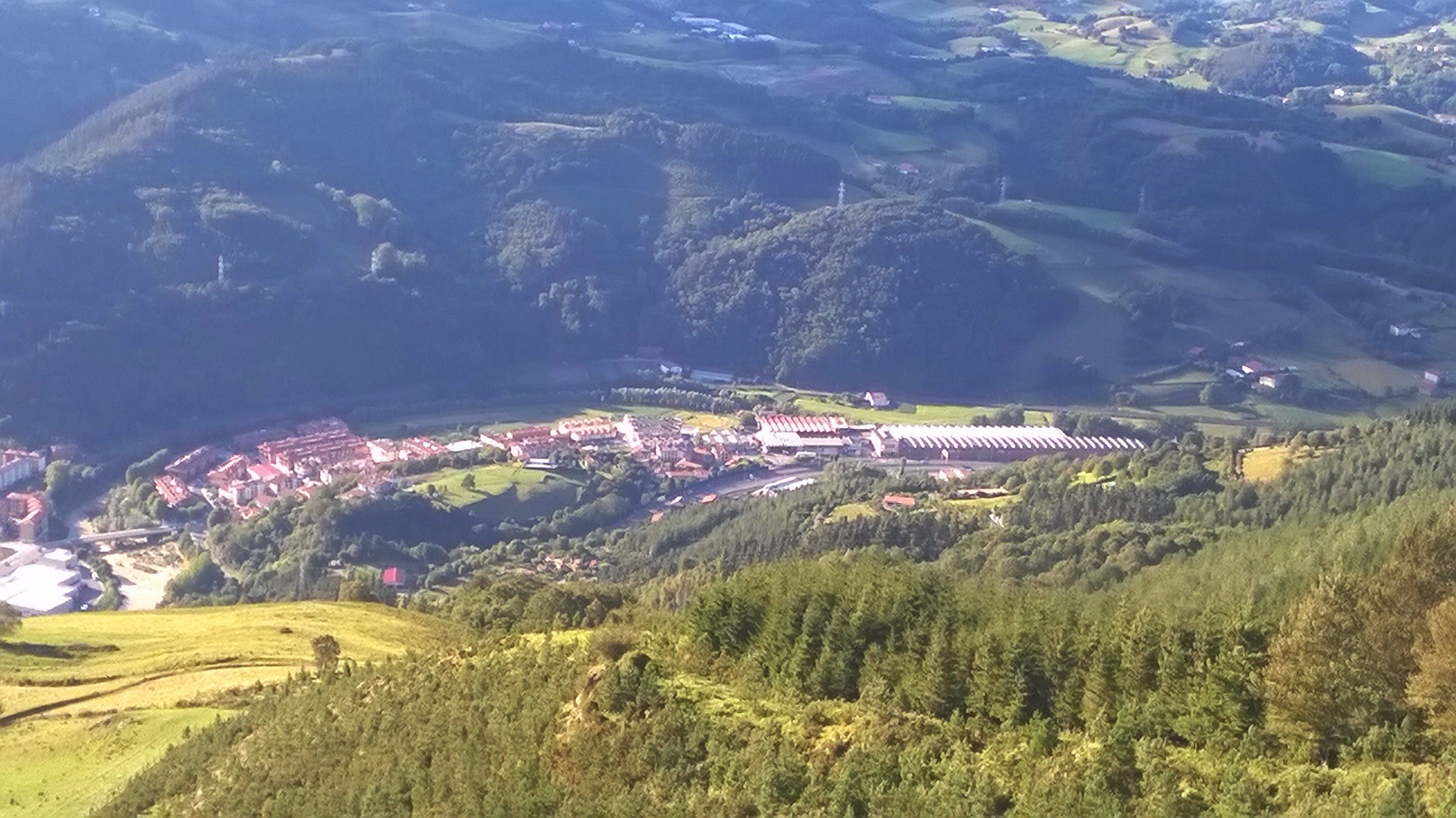 View of Irura from Uzturre mountain, Gipuzkoa, Basque Country.